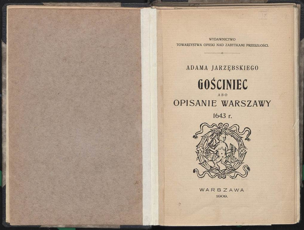 First page of the 1909 edition of the book "Gościniec, abo krótkie opisanie Warszawy" by Adam Jarzębski